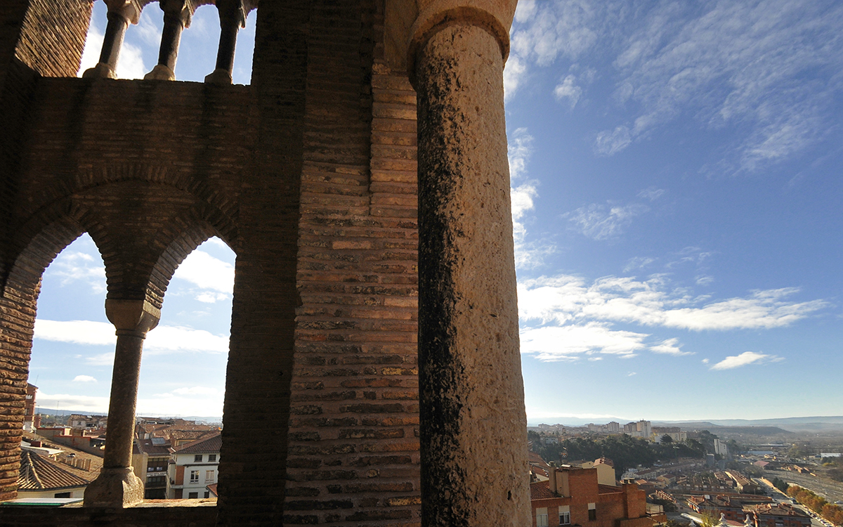 Vista desde el campanario de la Torre mudéjar de El Salvador. Teruel